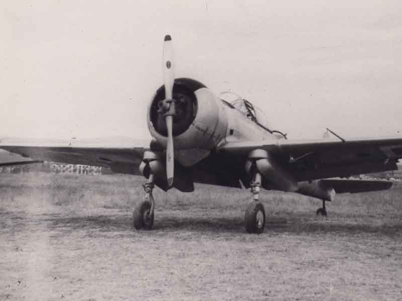 Curtiss Falcon CW 22 in Turkish service (1939-1949)